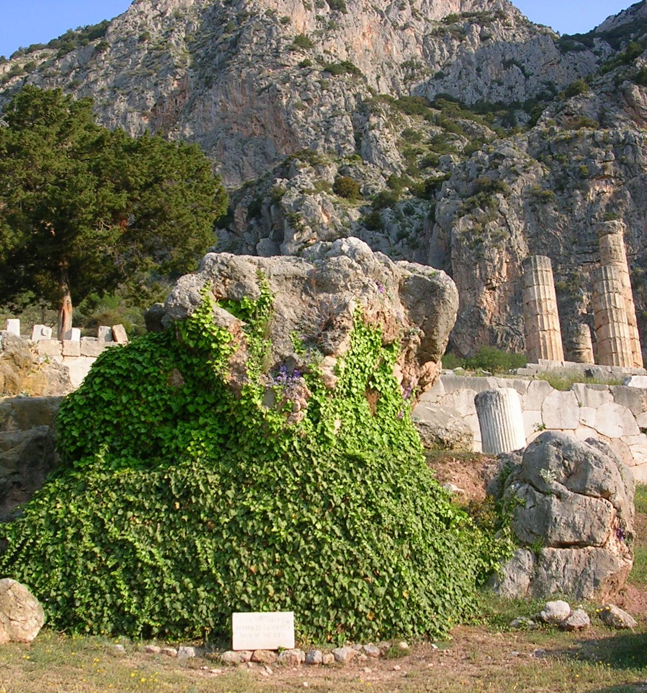 Sibyl stone in Delphi